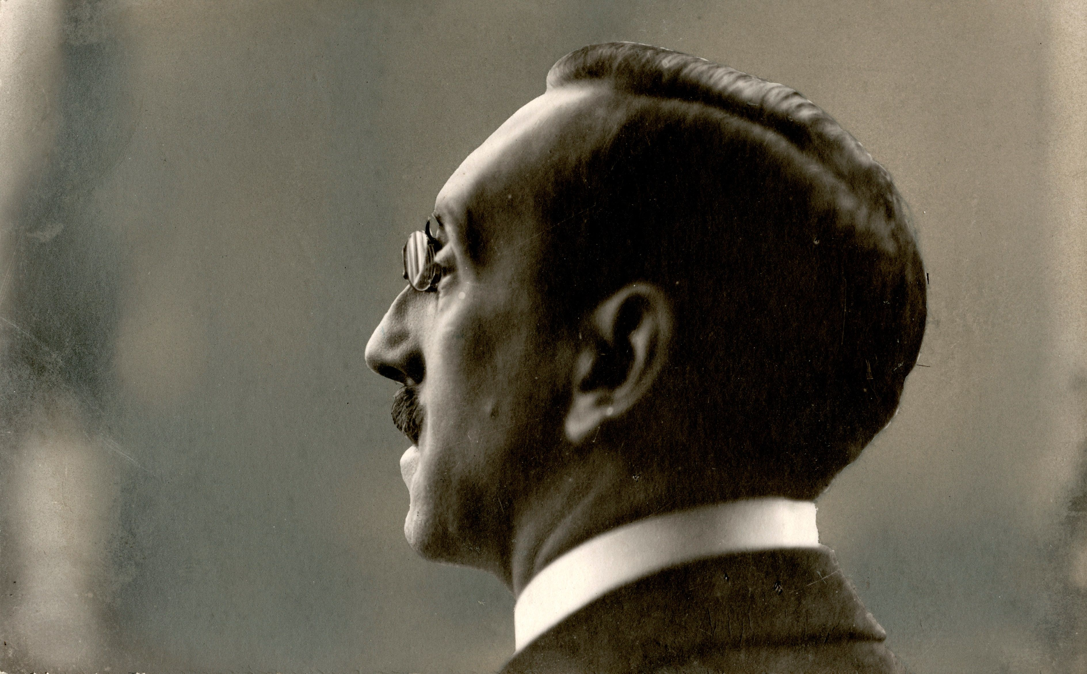 Belgian writer and politician August Vermeylen (1872-1945)